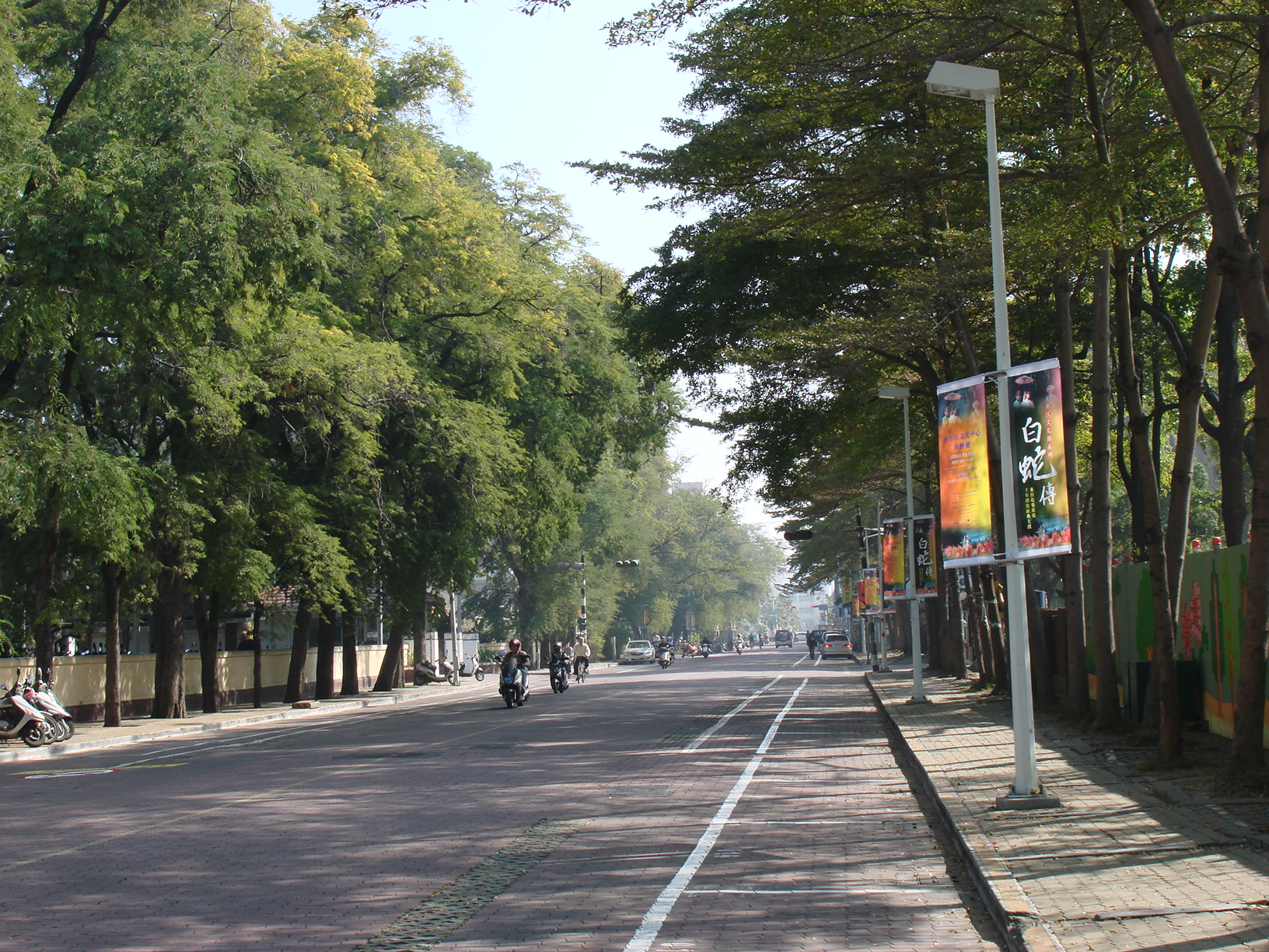 University Road of NCKU